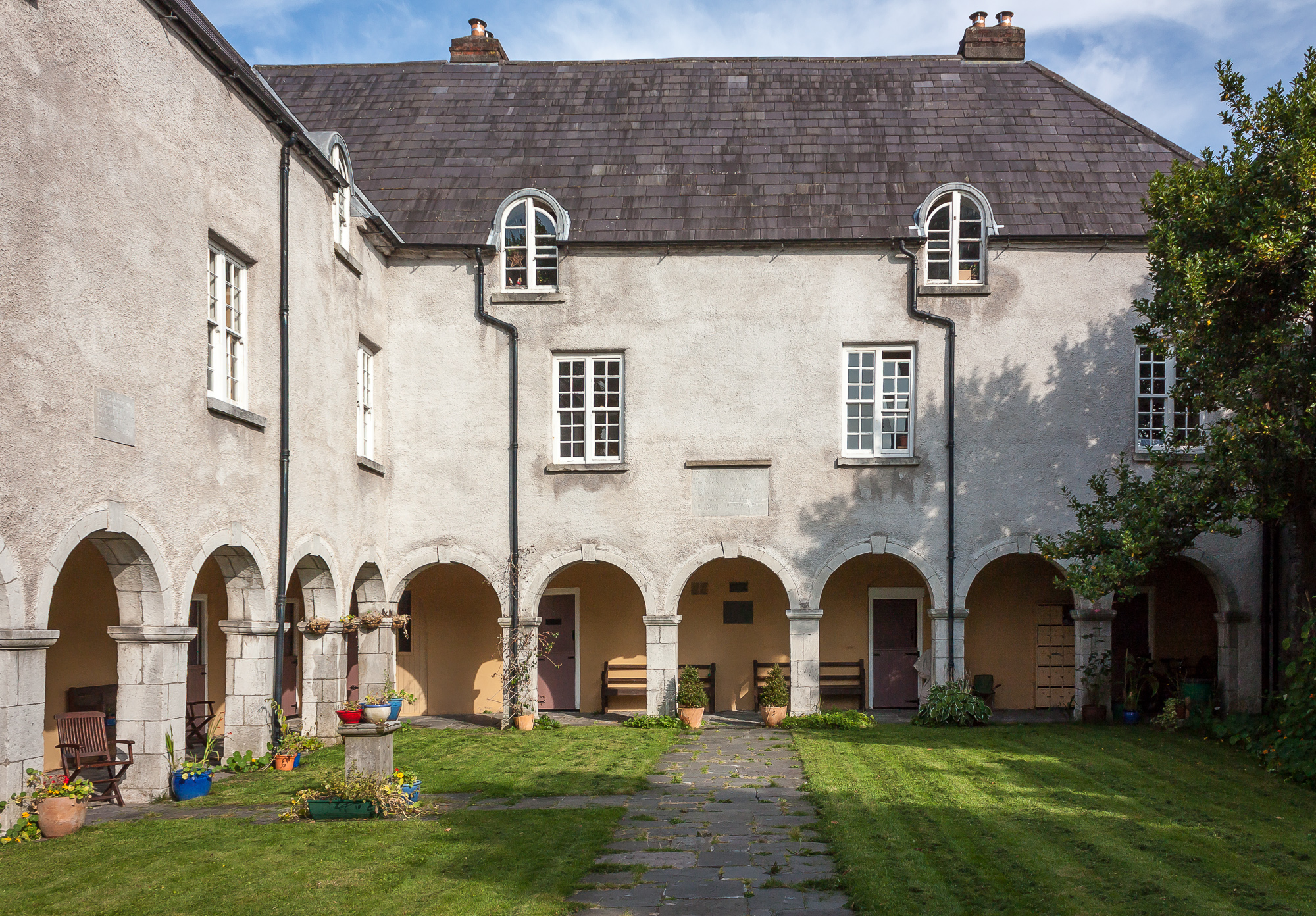 Skiddys Almshouse